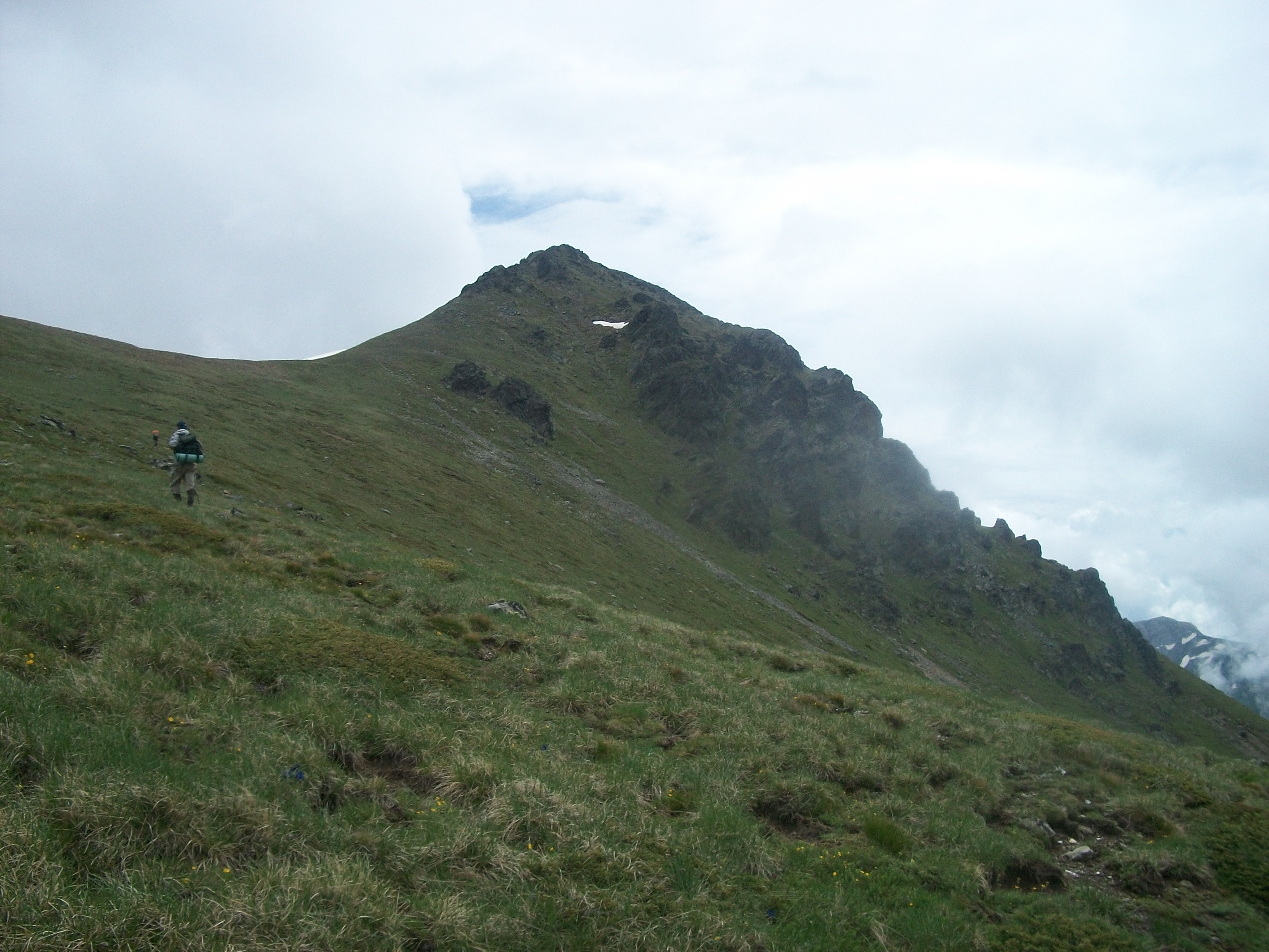 The Highest Point in Kosovo (The Highest Mountain)